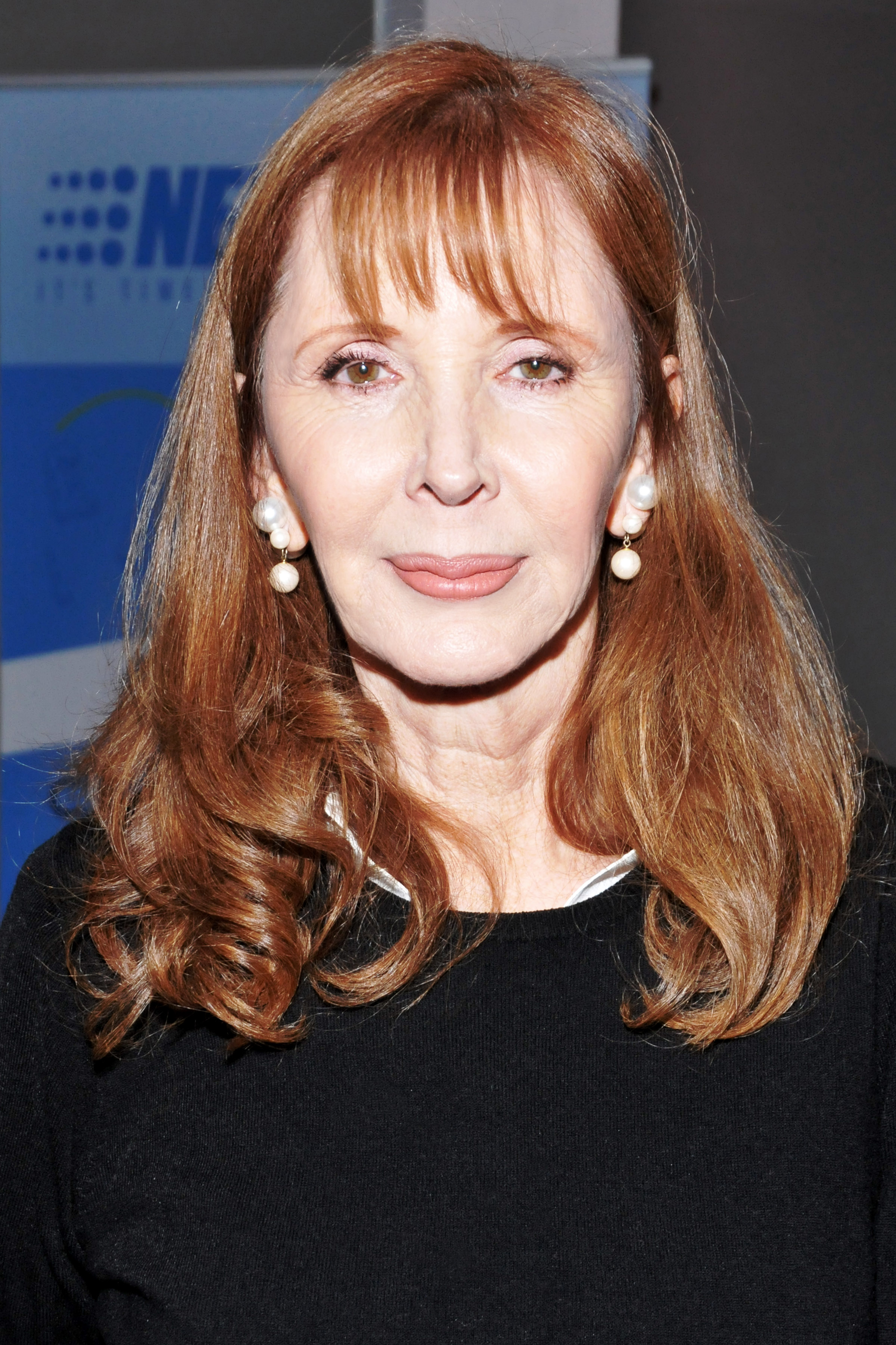 Kelly Holland in West Hollywood California on January 14, 2016 - Photo by Glenn Francis of